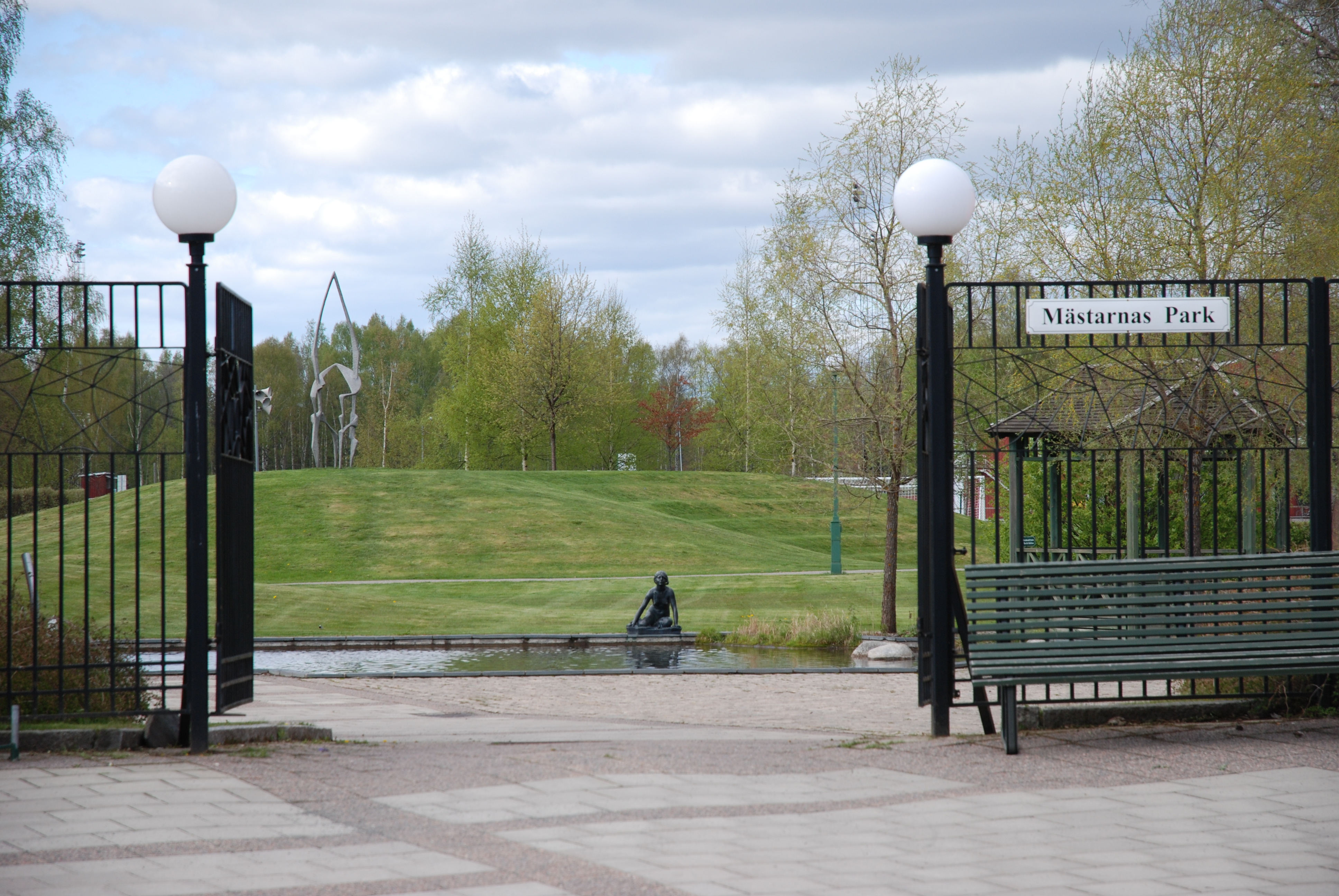 Sculpture Park Mästarnas Park, Hällefors, Sweden with Grodan by Per Hasselberg and Katedral by Arne Jones